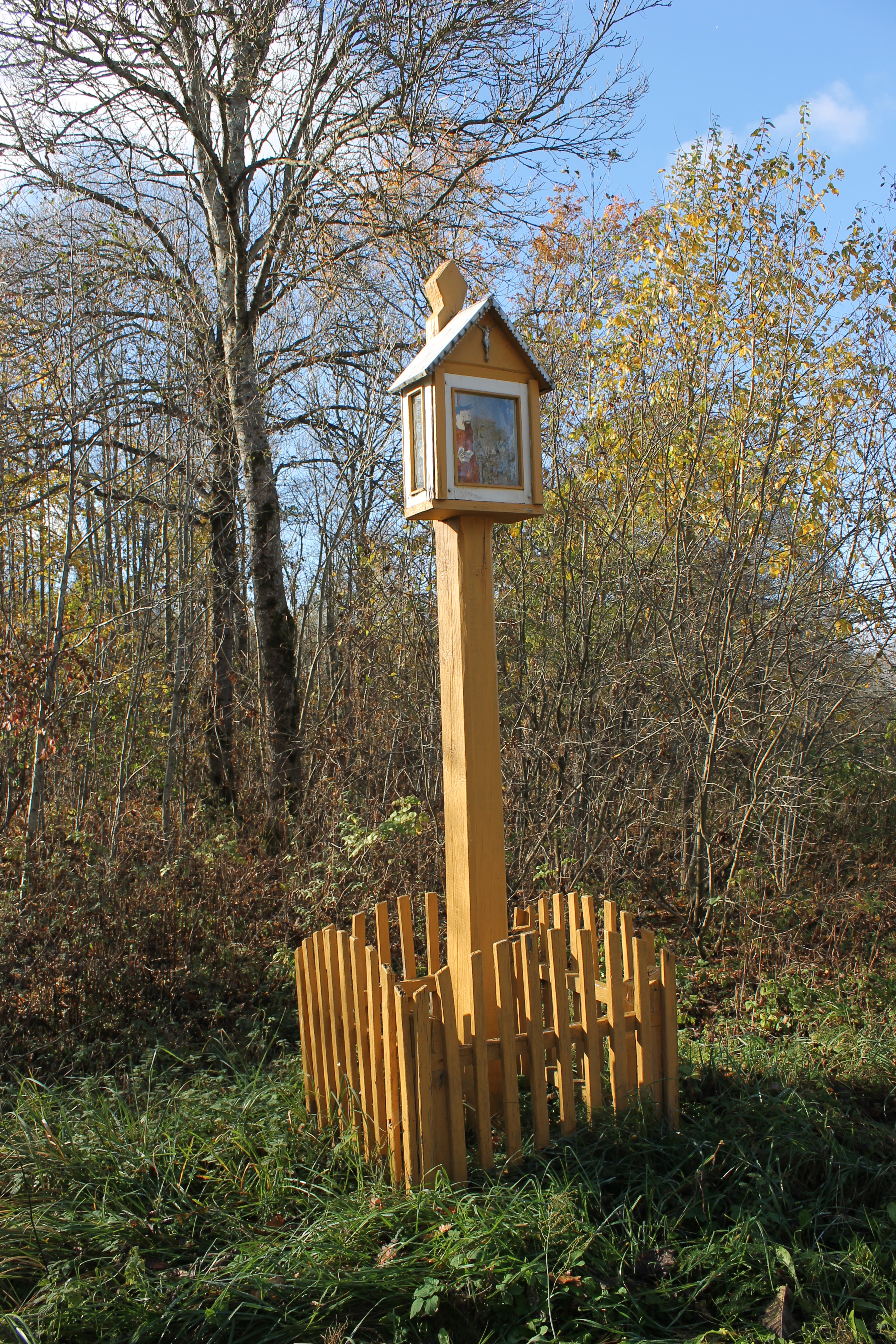 Chapel of the village of Dvarviečiai, Skuodas district municipality, LithuaniaLietuvių: Dvarviečių kaimo pakelės koplytstulpis, Skuodo rajono savivaldybė, Lietuva